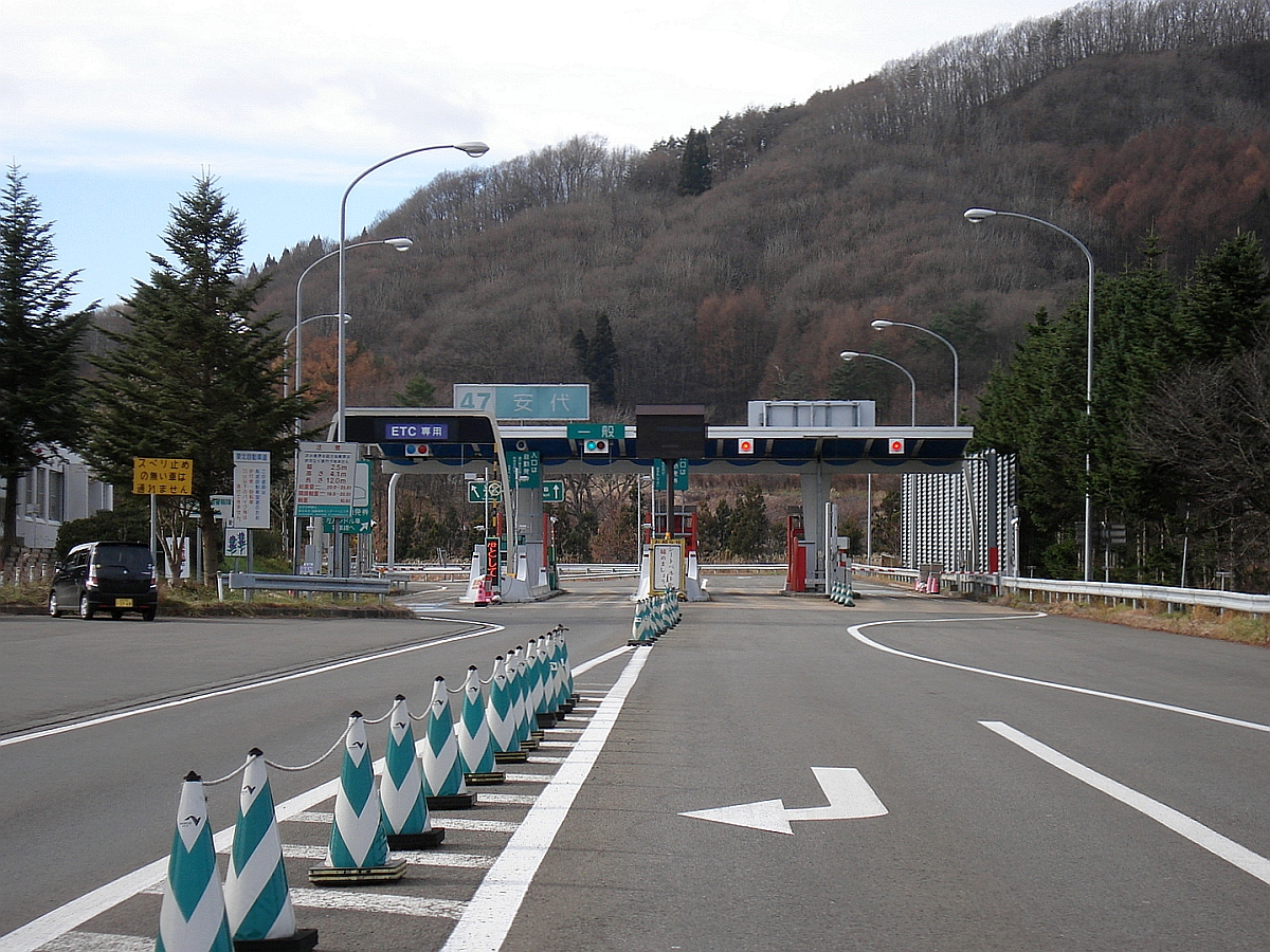 This Interchange, Ashiro Interchange, is on Tohoku Expressway, in Hachimantai city, Iwate Prefecture, Japan.